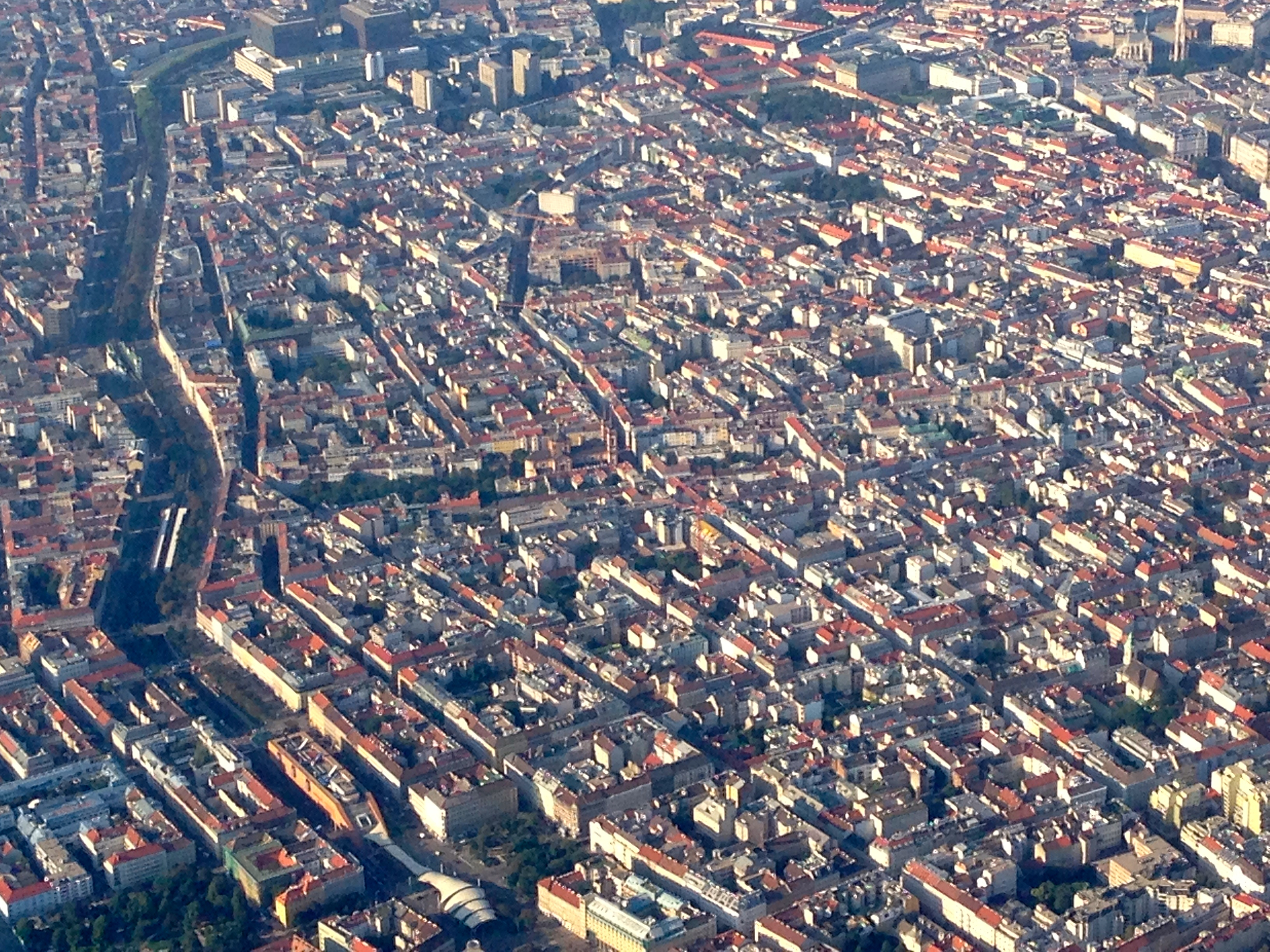 Landing in Vienna on August 2, 2014. Window seat on the pilot’s side. Approach takes you over the city of Vienna and, it was a beautiful day.